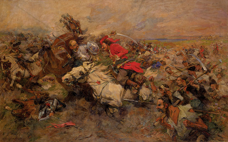 "Battle of Maxym Kryvonis with Jeremi Wisniowecki"